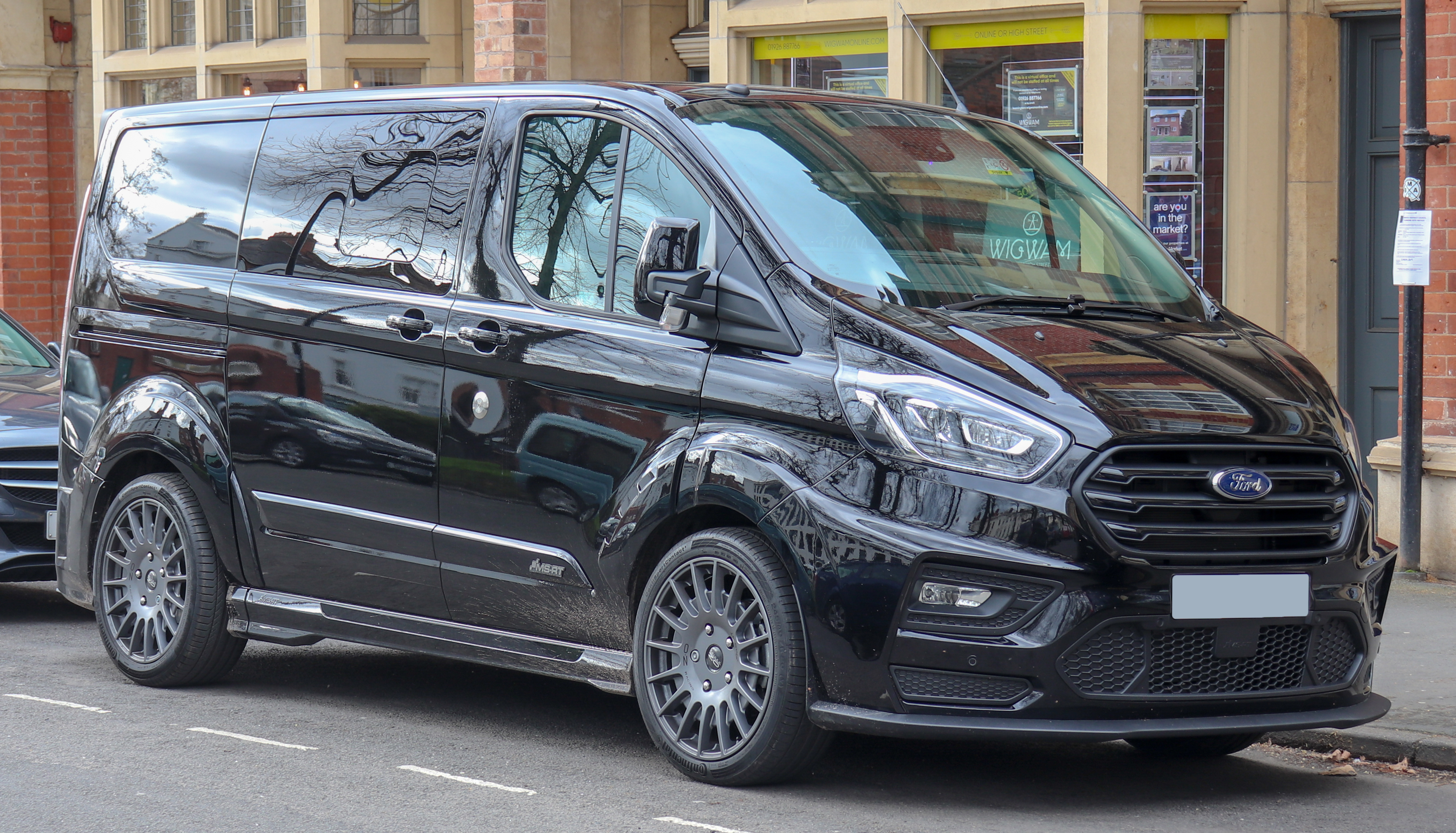 2019 Ford Transit Custom MS-RT 320 Limited 2.0 Front Taken in Leamington Spa